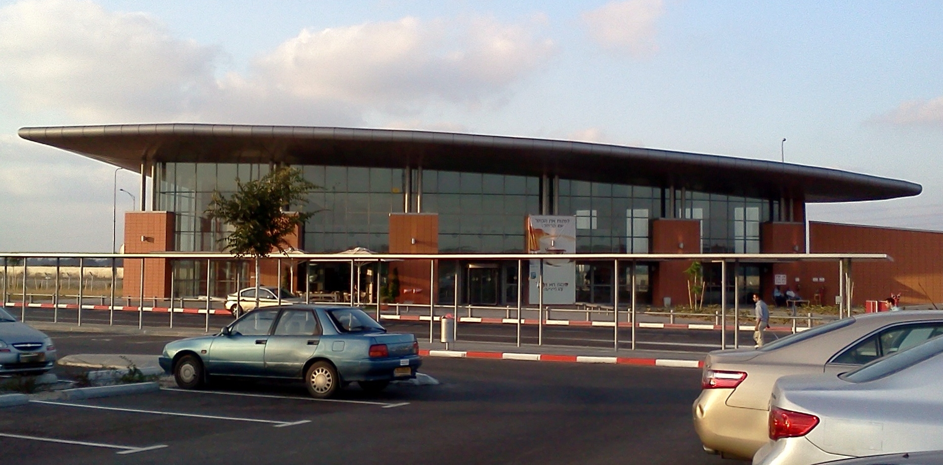 Passenger terminal on fast lane parking lot on highway 1, Israel